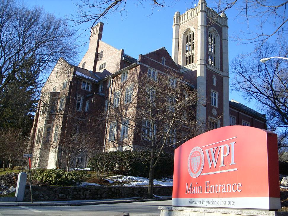 Picture of Alden Memorial at Worcester Polytechnic Institute. Taken from main entrance.